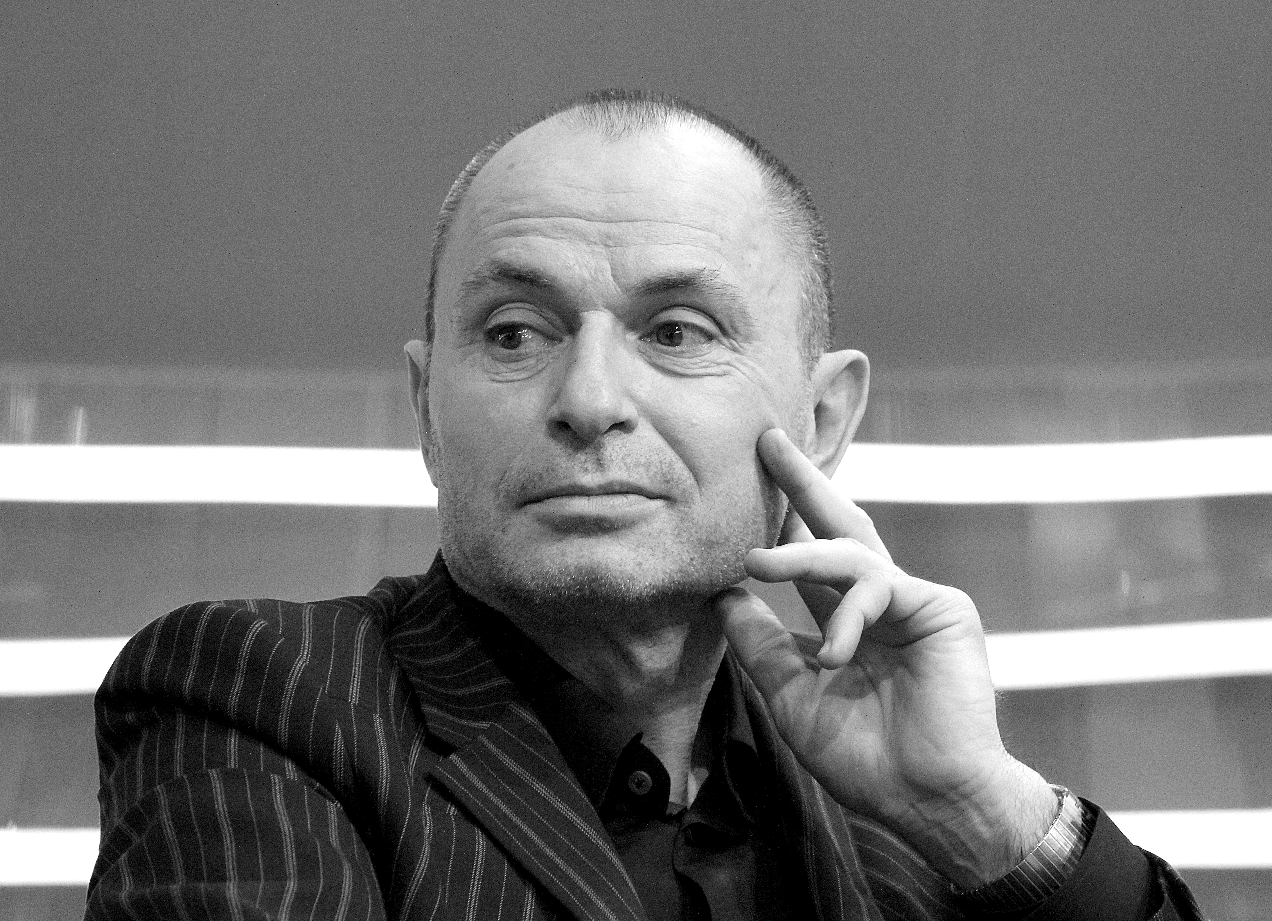 Norbert Gstrein Leipzig Book Fair 2018